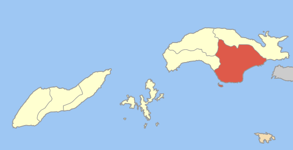 Locator map of Pythagorio municipality (Δήμος Πυθαγορείου) in Samos prefecture (Νομός Σάμου) in Greece.